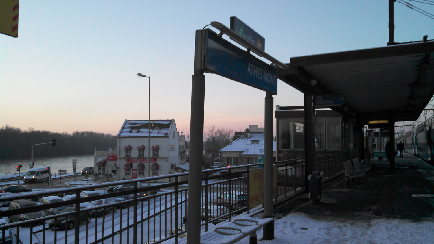 platform at Athis-Mons station, France.